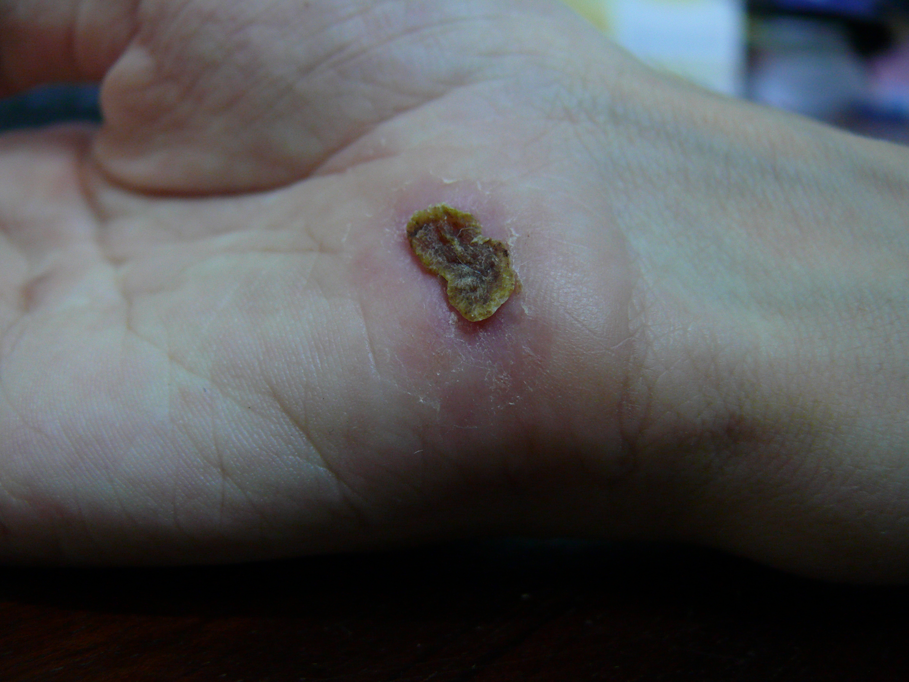 Wound on palm of hand 16 days after falling off a bike onto concrete. Previous photos: Day 1: Image:Wound on palm of hand.jpg Day 2: Image:Wound on palm of hand - day 2.jpg Day 3: Image:Wound on palm of hand - day 3.jpg Day 4: Image:Wound on palm of hand - day 4.jpg Day 5: Image:Wound on palm of hand - day 5.jpg Day 6: Image:Wound on palm of hand - day 6.jpg Day 7: Image:Wound on palm of hand - day 7.jpg Day 8: Image:Wound on palm of hand - day 8.jpg Day 9: Image:Wound on palm of hand - day 9.jpg Day 10: Image:Wound on palm of hand - day 10.jpg Day 11: Image:Wound on palm of hand - day 11.jpg Day 12: Image:Wound on palm of hand - day 12.jpg Day 13: Image:Wound on palm of hand - day 13.jpg Day 14: Image:Wound on palm of hand - day 14.jpg Day 15: Image:Wound on palm of hand - day 15.jpg Following photos: Day 17: Image:Wound on palm of hand - day 17.jpg Day 18: Image:Wound on palm of hand - day 18.jpg Day 19: Image:Wound on palm of hand - day 19.jpg Day 20: Image:Wound on palm of hand - day 20.jpg